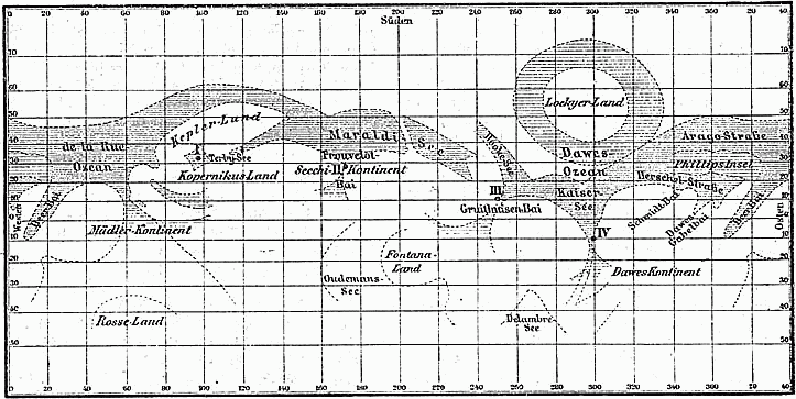 Map drawn by Oswald Lohse. Published in en:1888 in Meyers Konversationslexikon (Public Domain)